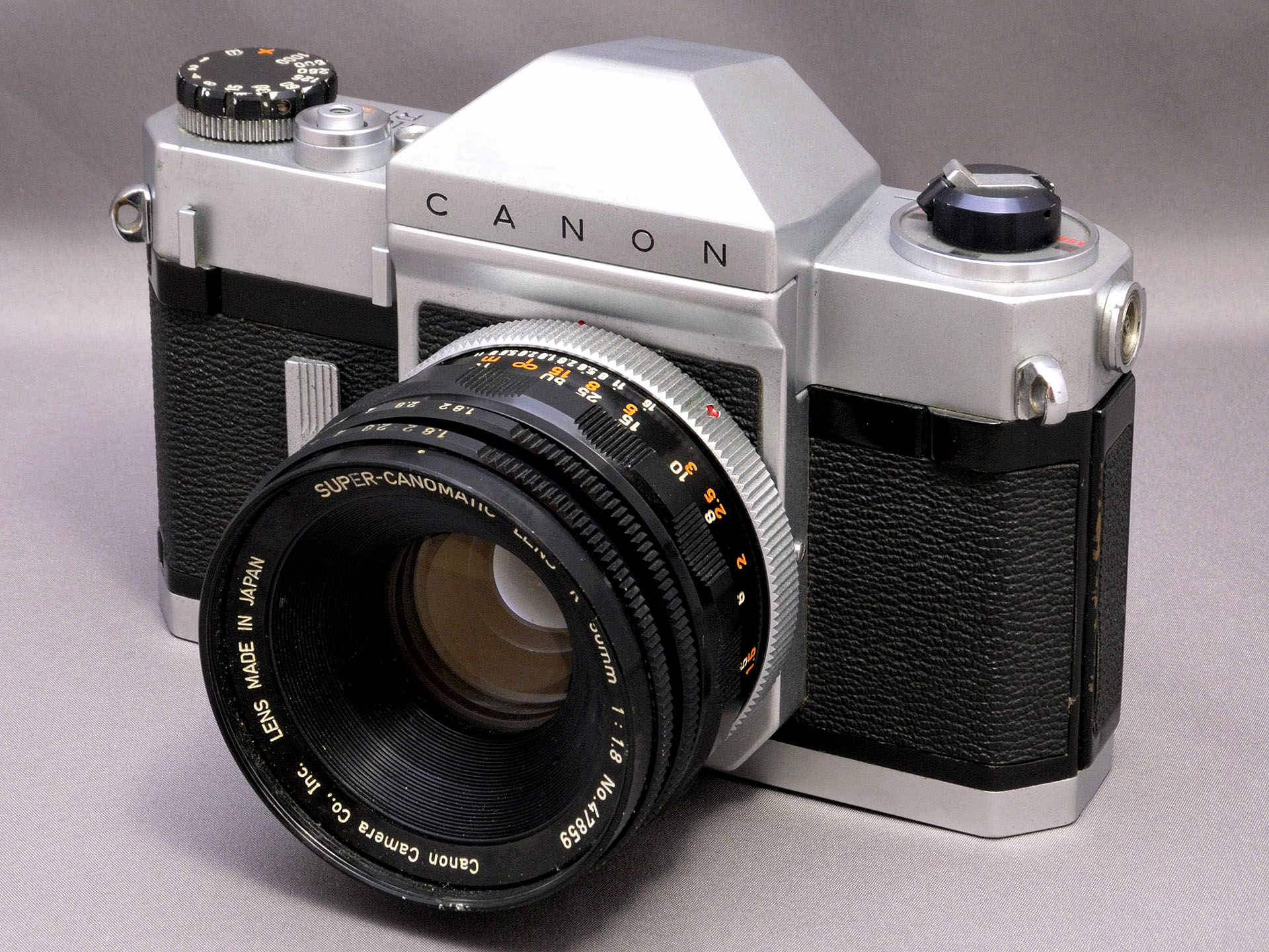 Canonflex RP with 50mm f/1.8